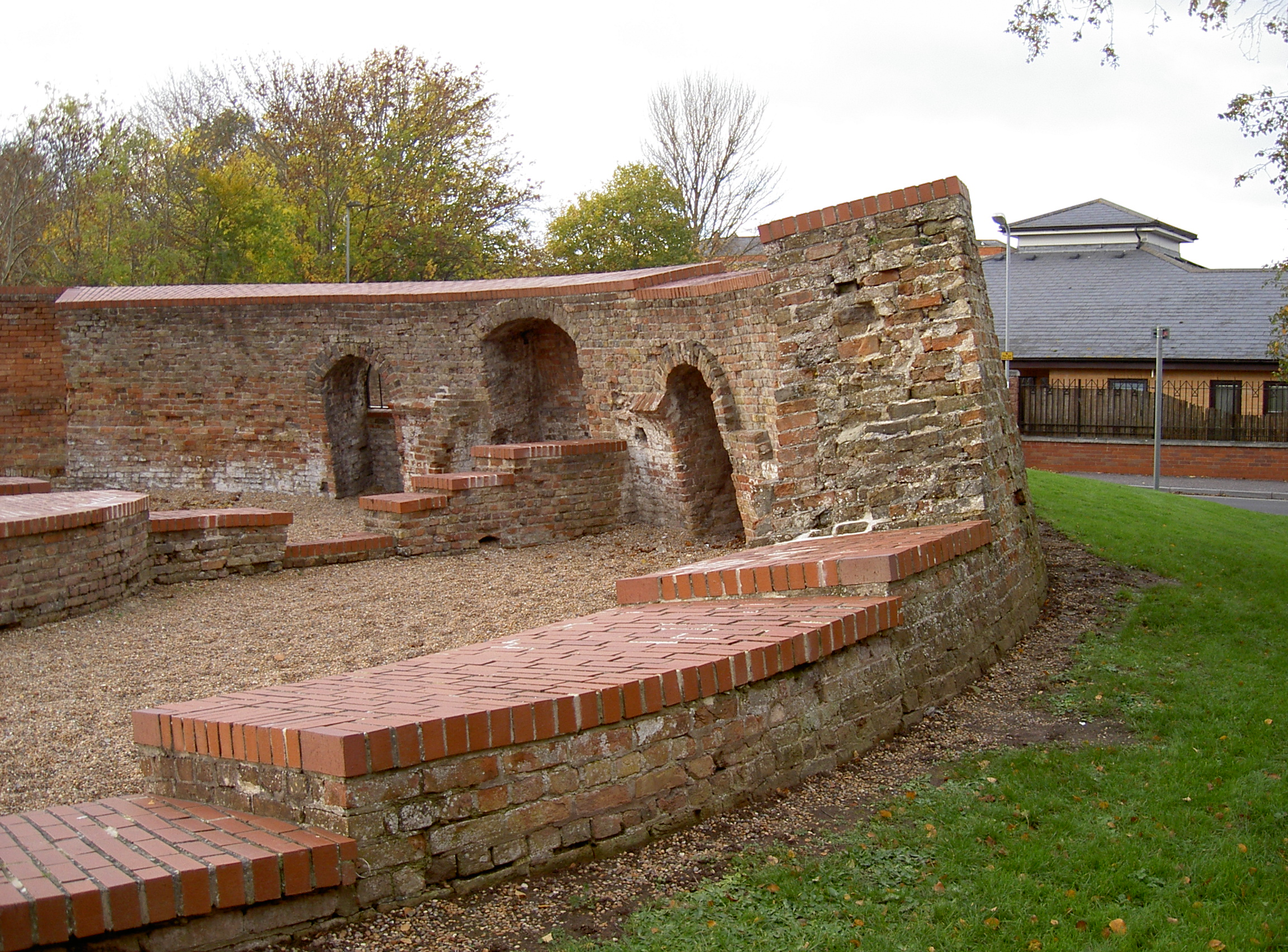 A sturdy base